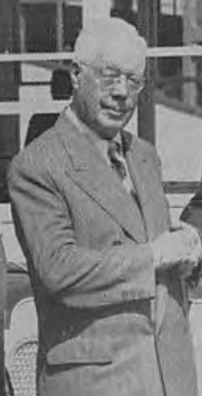 James E. Dooley, receiving a plaque from the Georgetown University board of governors in the fall of 1949 in Providence, Rhode Island